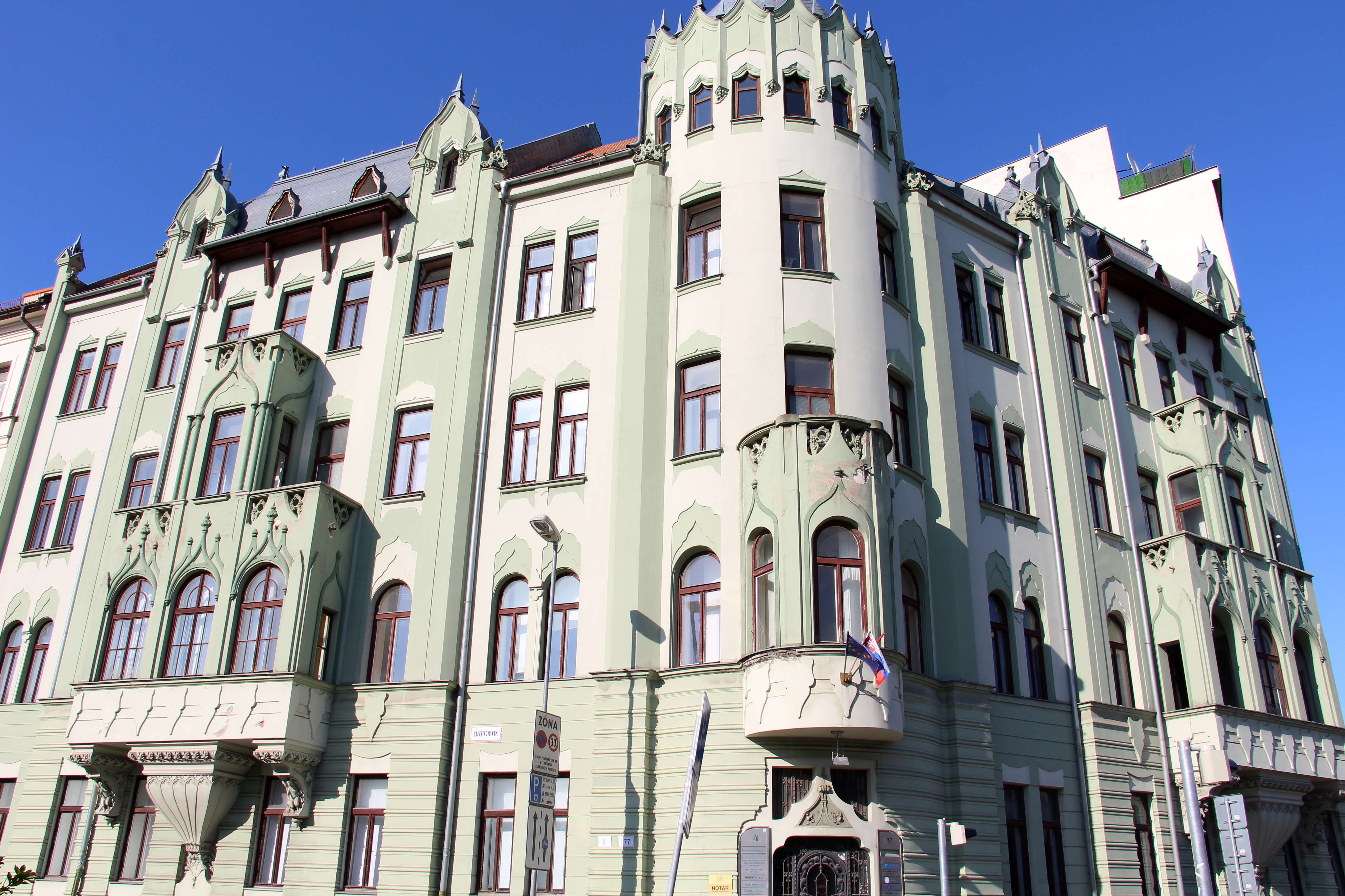 Staré Mesto. Šafárikovo námestie Neo-gothic building built in 1904.